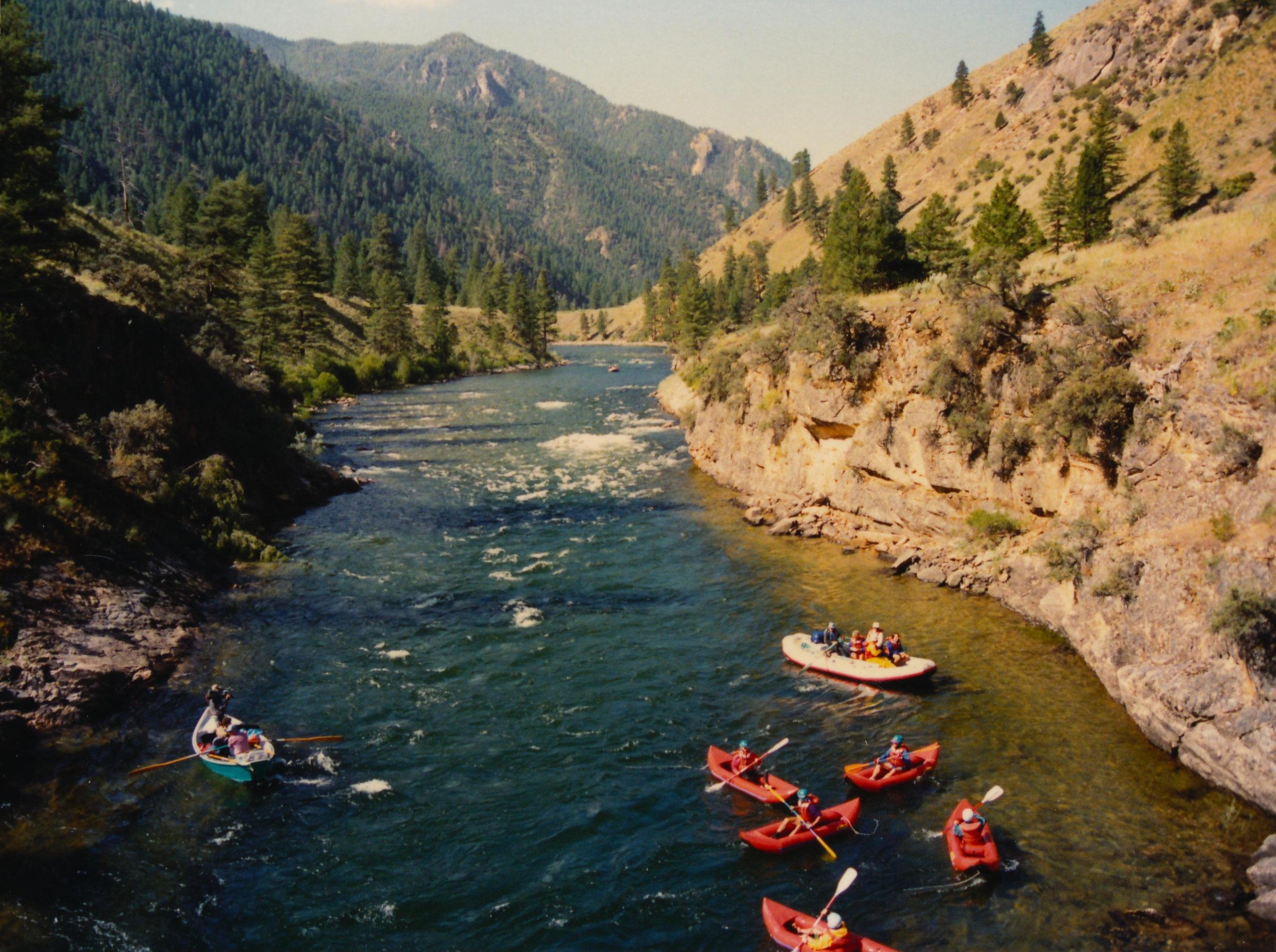 One of America's favorite stretches of White Water, the Salmon River flows east to west across the Idaho Batholith - through the River of No Return Wilderness Area. A road parallels the upper part of the river, so there is a return from here... The Salmon River has its source in the Stanley Basin, at the foot of the Sawtooths. Scanned print.